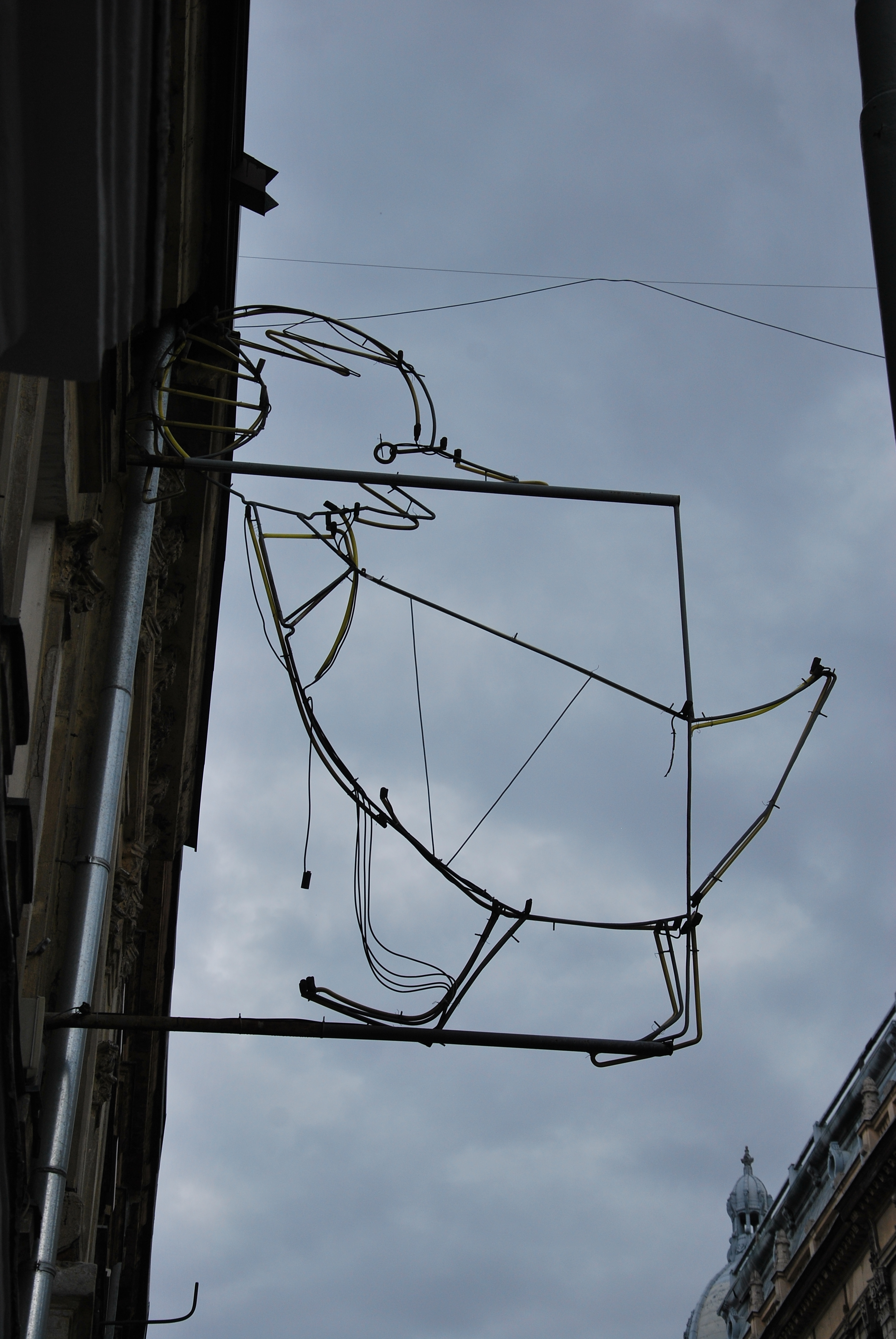 Old neon sign 'Gąska Balbinka', Łódź 3 Więckowskiego Street